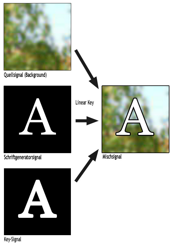 Example for Linear Keying (German)